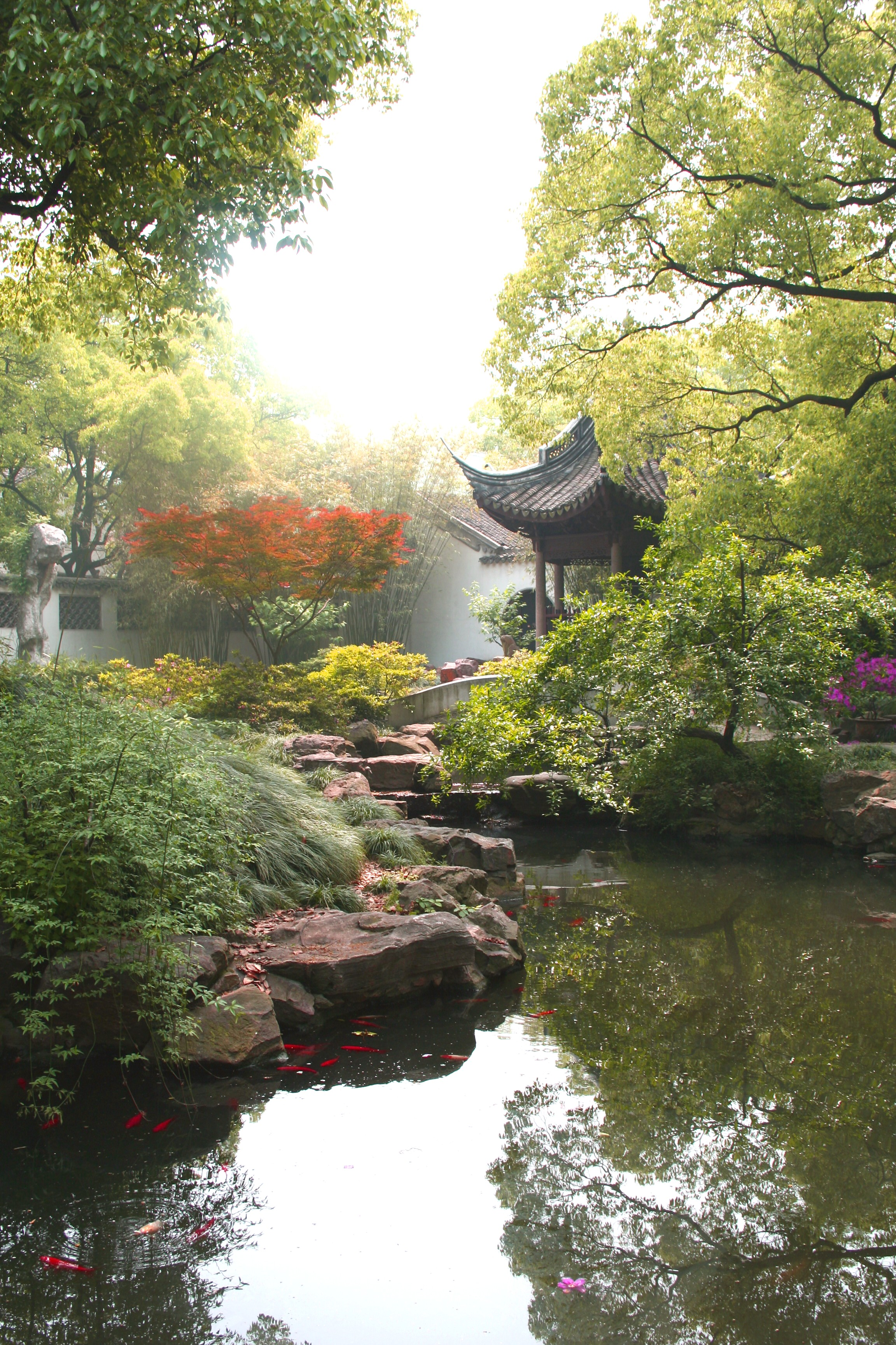 Personal photo released into public domain.